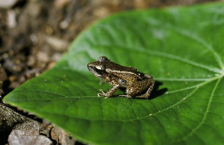 Eleutherodactylus cuneatus